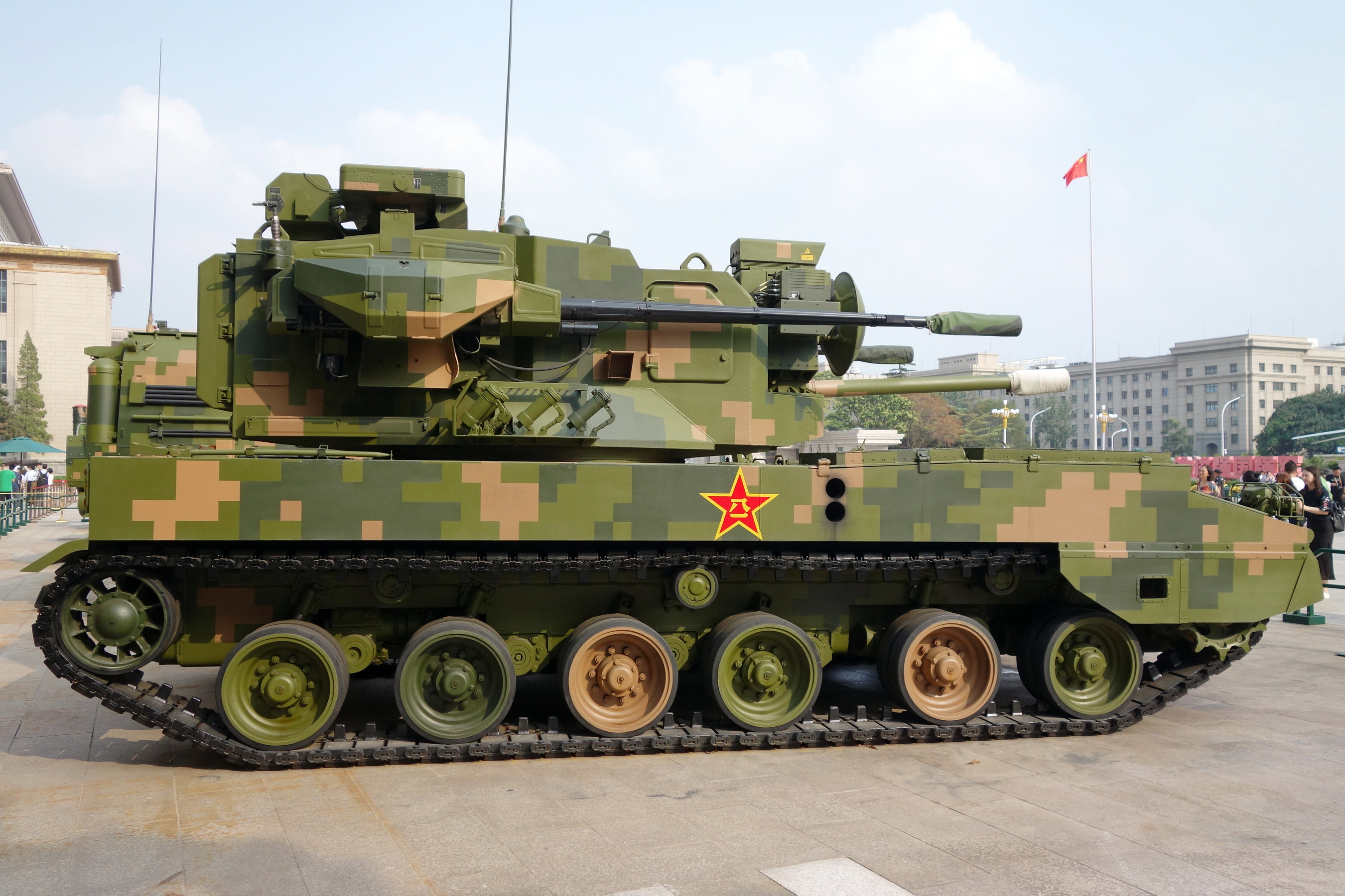 PGZ-09 Self-propelled anti-aircraft artillery